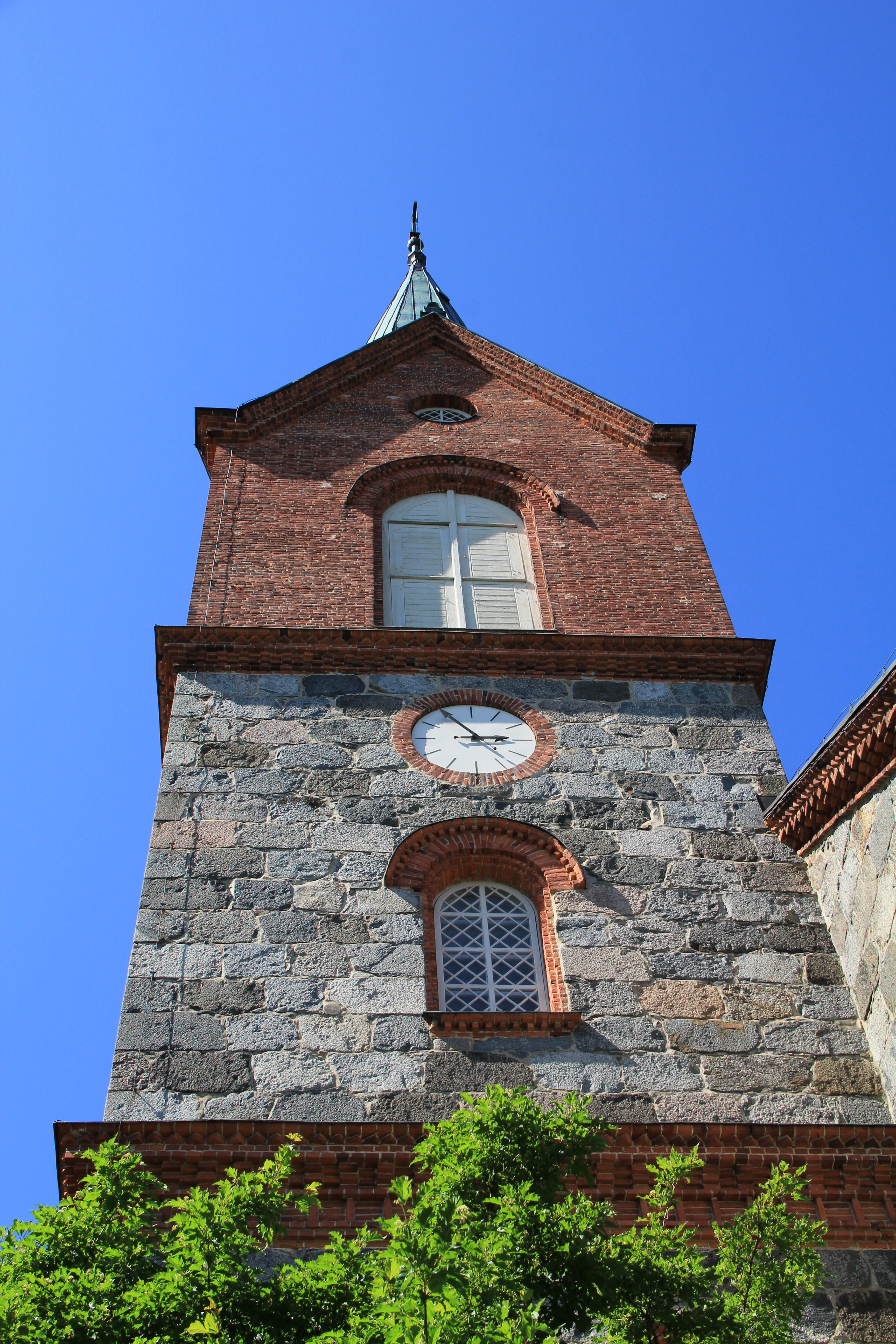 Juva church, Juva, Finland. - Stone church, designed by architects Ernst Lohrmann and Carl Albert Edelfelt. Completed in 1863. - Tower seen from southeast.